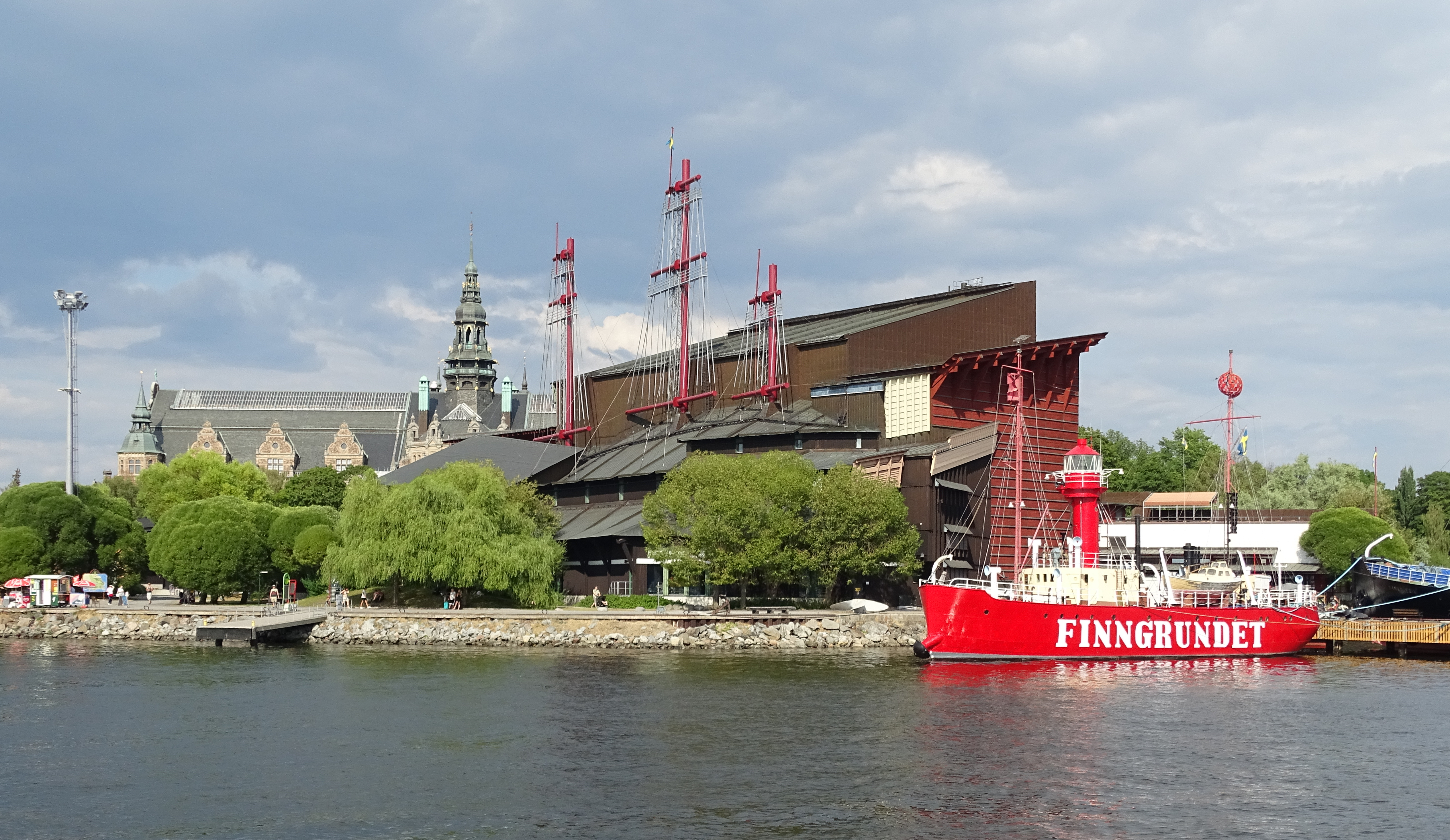 The Vasa Museum a maritime museum in Stockholm, Sweden, which displays the only almost fully intact 17th century ship that has ever been salvaged, the 64-gun warship Vasa that sank on her maiden voyage in 1628. The Nordic Museum is dedicated to the cultural history and ethnography of Sweden from the early modern period to the contemporary period.